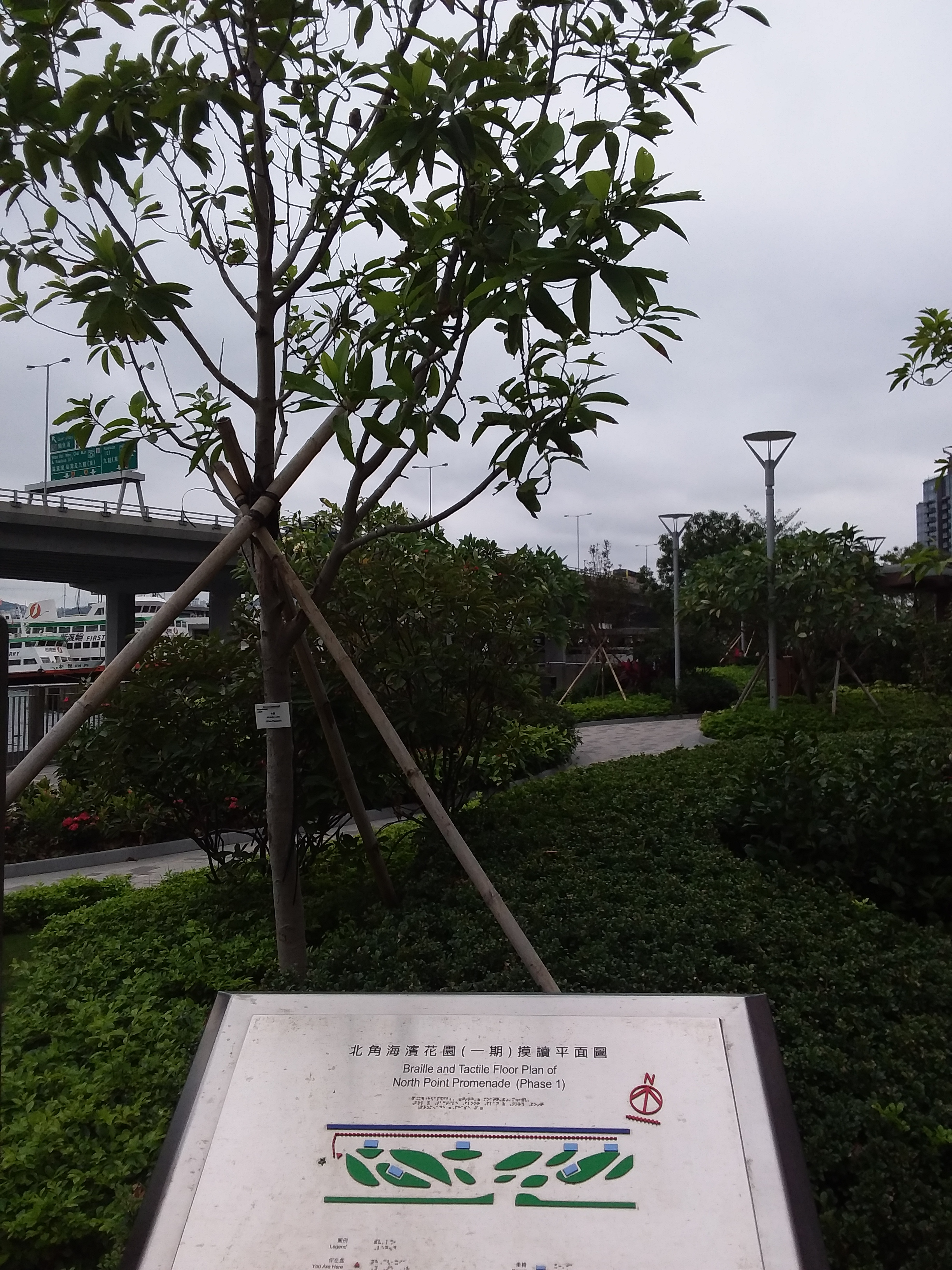 HK 北角海濱花園 North Point Promenade name sign 糖水道 Tong Shui Road in December 2018